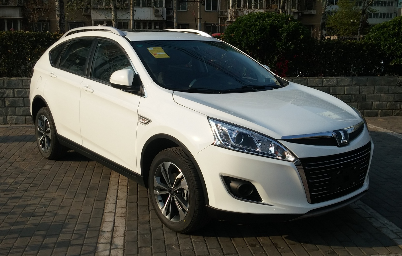 Luxgen U6 photographed in Beijing, China.